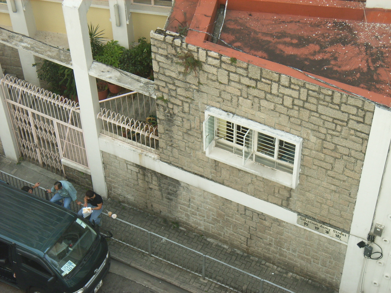 Around the Oi Kwan Road, Wan Chai, Hong Kong Author:Wenzi MHTI